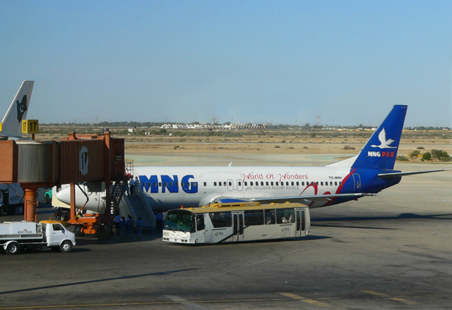 One of the MNG Airlines 737 aircraft leased by PIA for Hajj operation 2005-2006 is parked at Jinnah International Airport, Karachi, in December 2005.